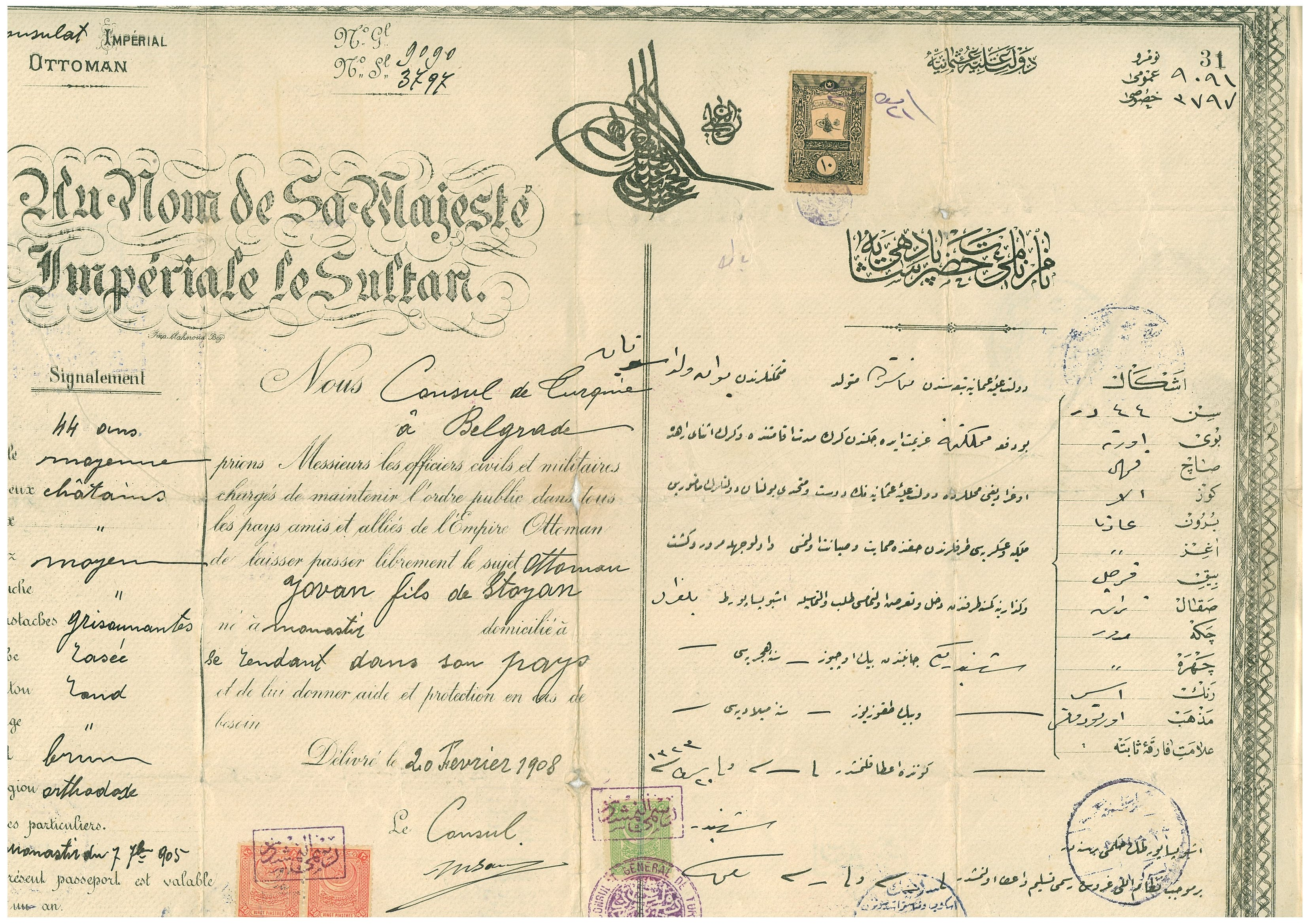 Passport issued by Ottoman consul in Belgrade named for John Stojanov from Bitola, 1908. This media file is produced by Wikipedian in Residence in Category:Wikipedian in Residence at DARM in 2016.